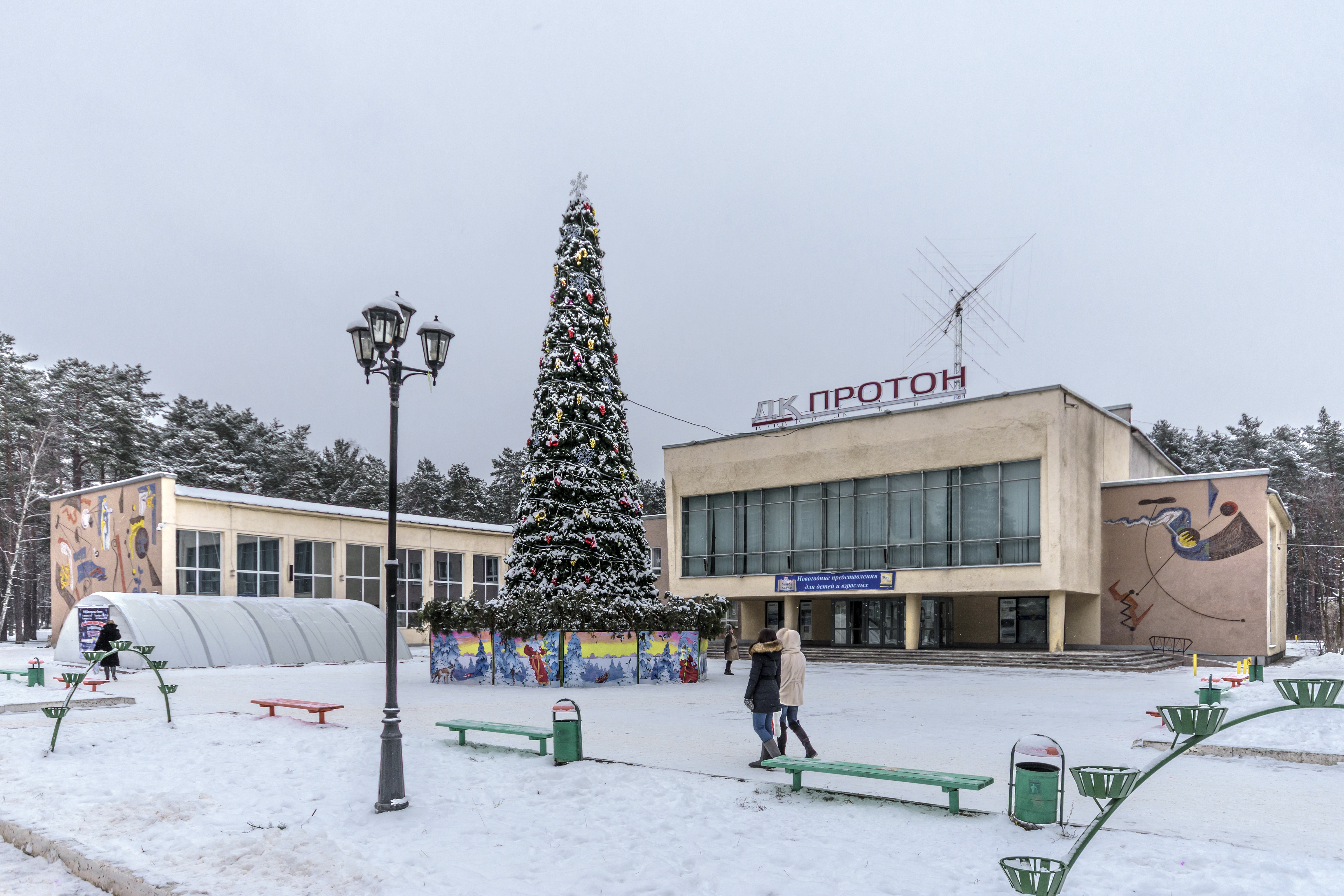 House of Culture 'Proton' in Protvino town of Moscow Oblast, Russia